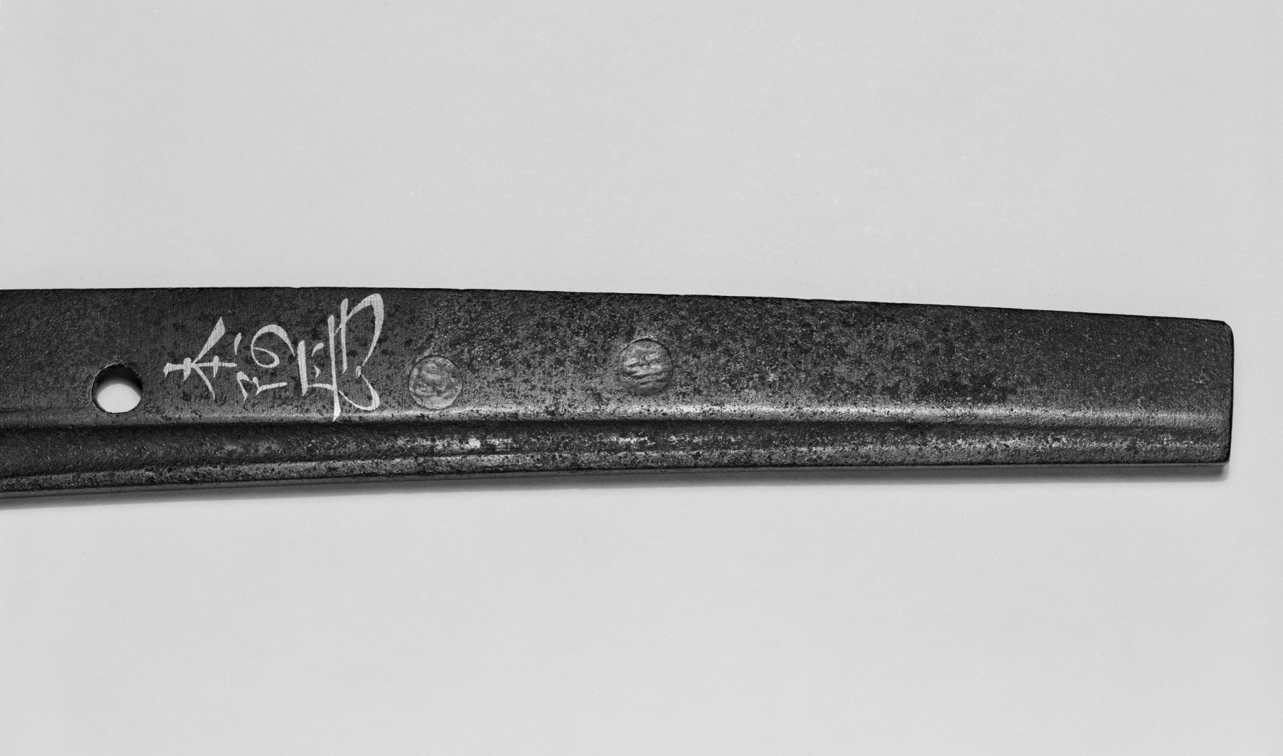 The gold inlay on this piece is attributed to Sadamune (active 14th century) by Honami Kokan (active 1840s).